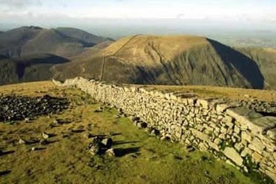 The Mourne Wall going down Slieve Donard